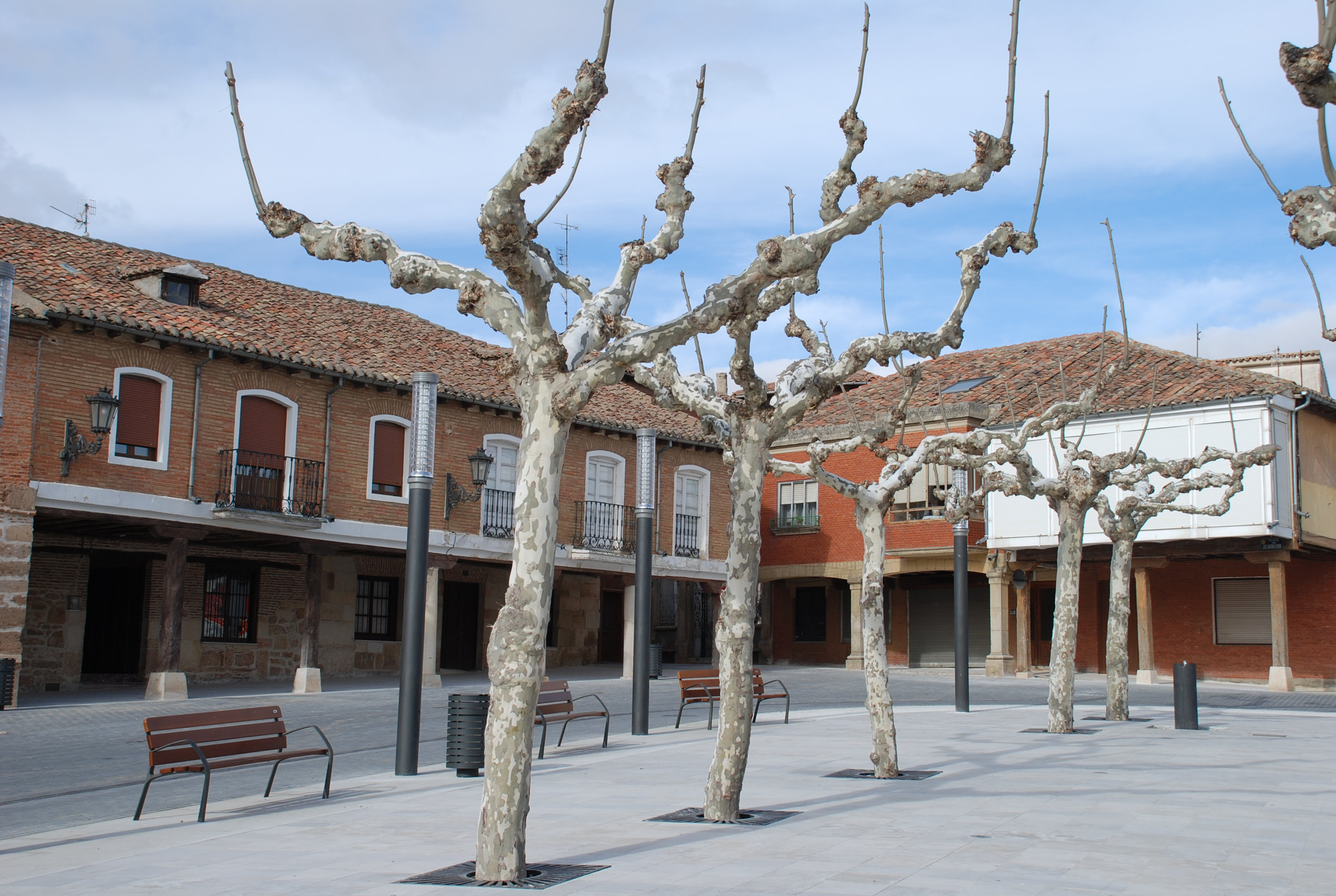 Main square of Herrera de Pisuerga (Palencia, Castile and León).